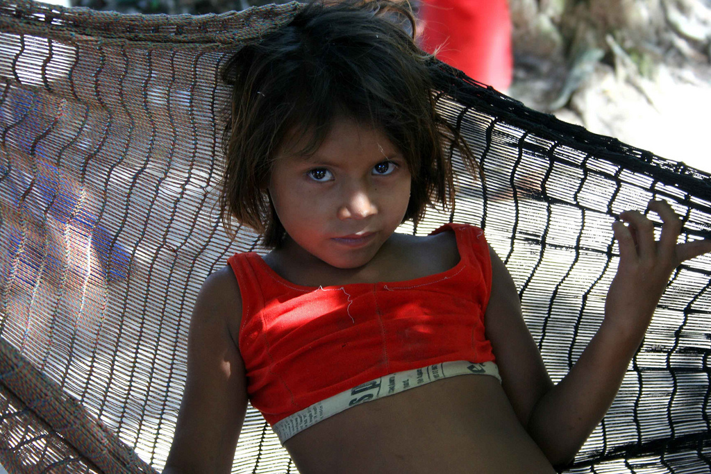 Pemon girl, Venezuela.